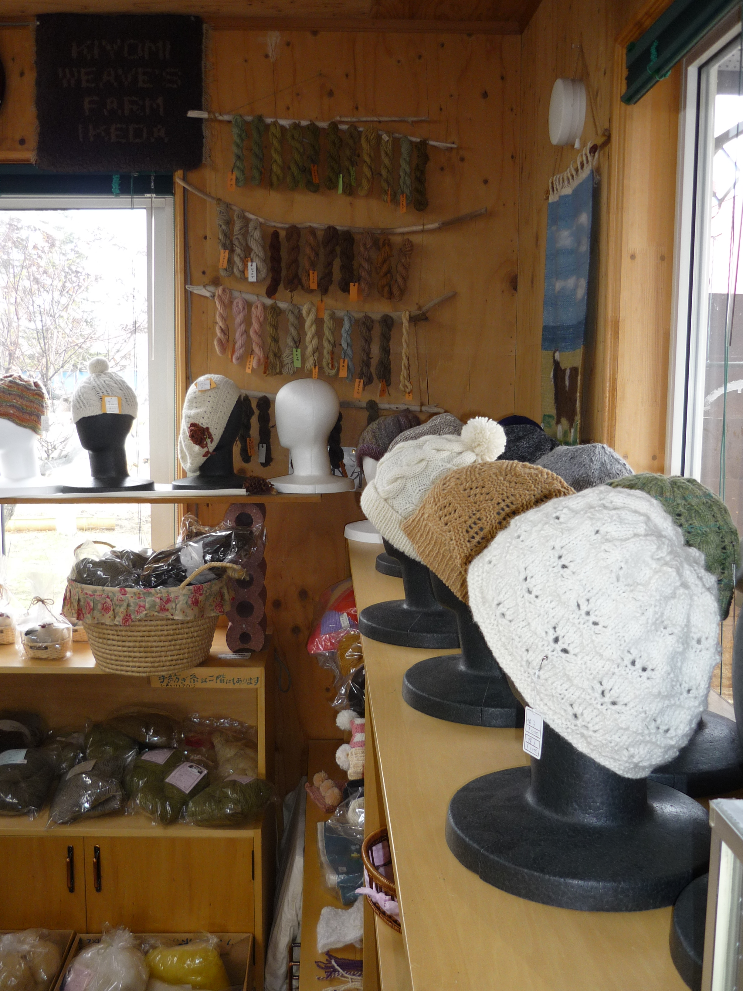 A cute little wool shop in Ikeda, owned by a sweet old couple.